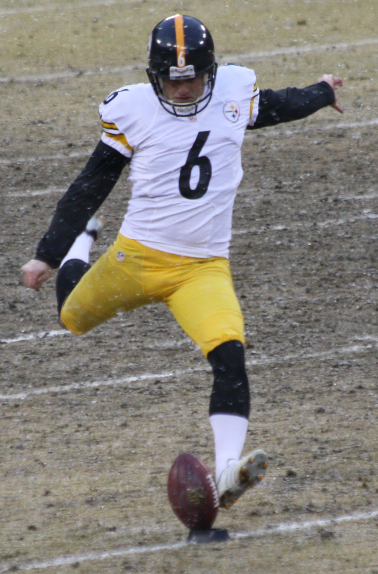 Pittsburgh Steelers kicker Shaun Suisham practicing a kickoff during warmups.